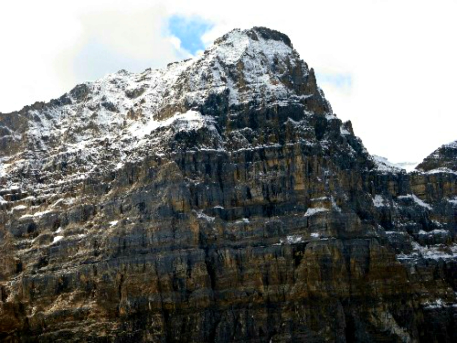 Mount Tuzo in the Canadian Rockies at Moraine Lake, Banff National Park